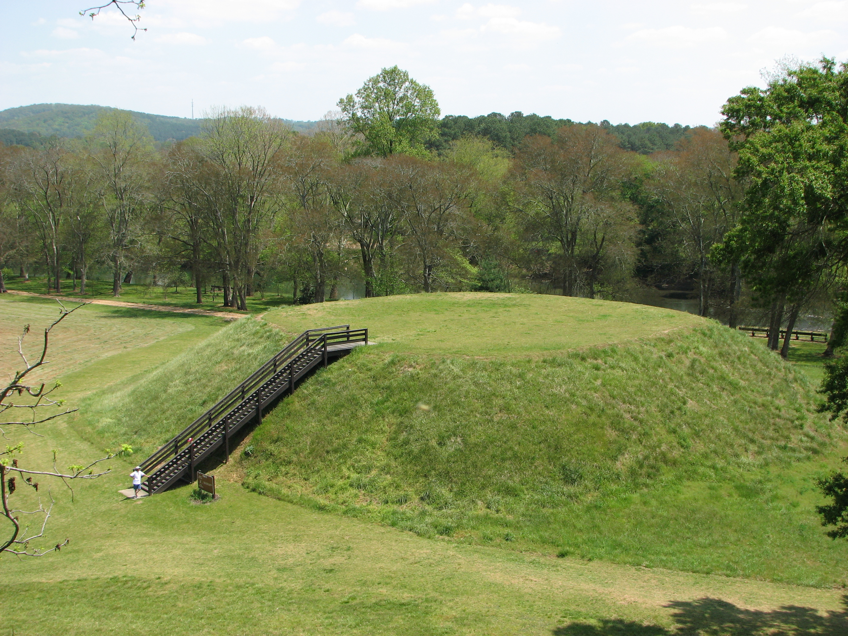 Mound B at the archaeological site Etowah Indian Mounds in Georgia, USA